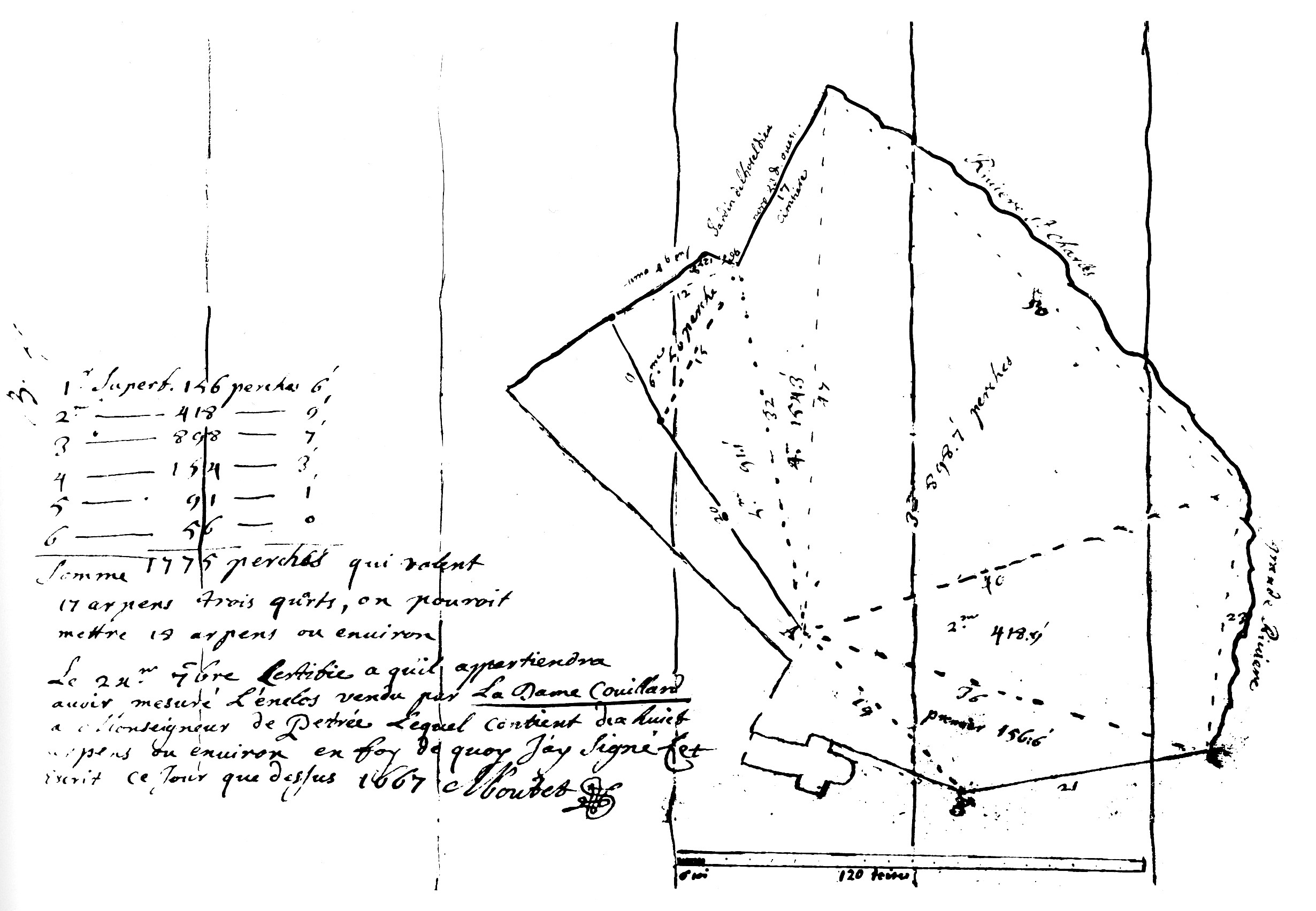 Drawing and measurements of the Sault au matelot, in Québec, New France, dated September 24, 1667, for the sale by dame Couillard